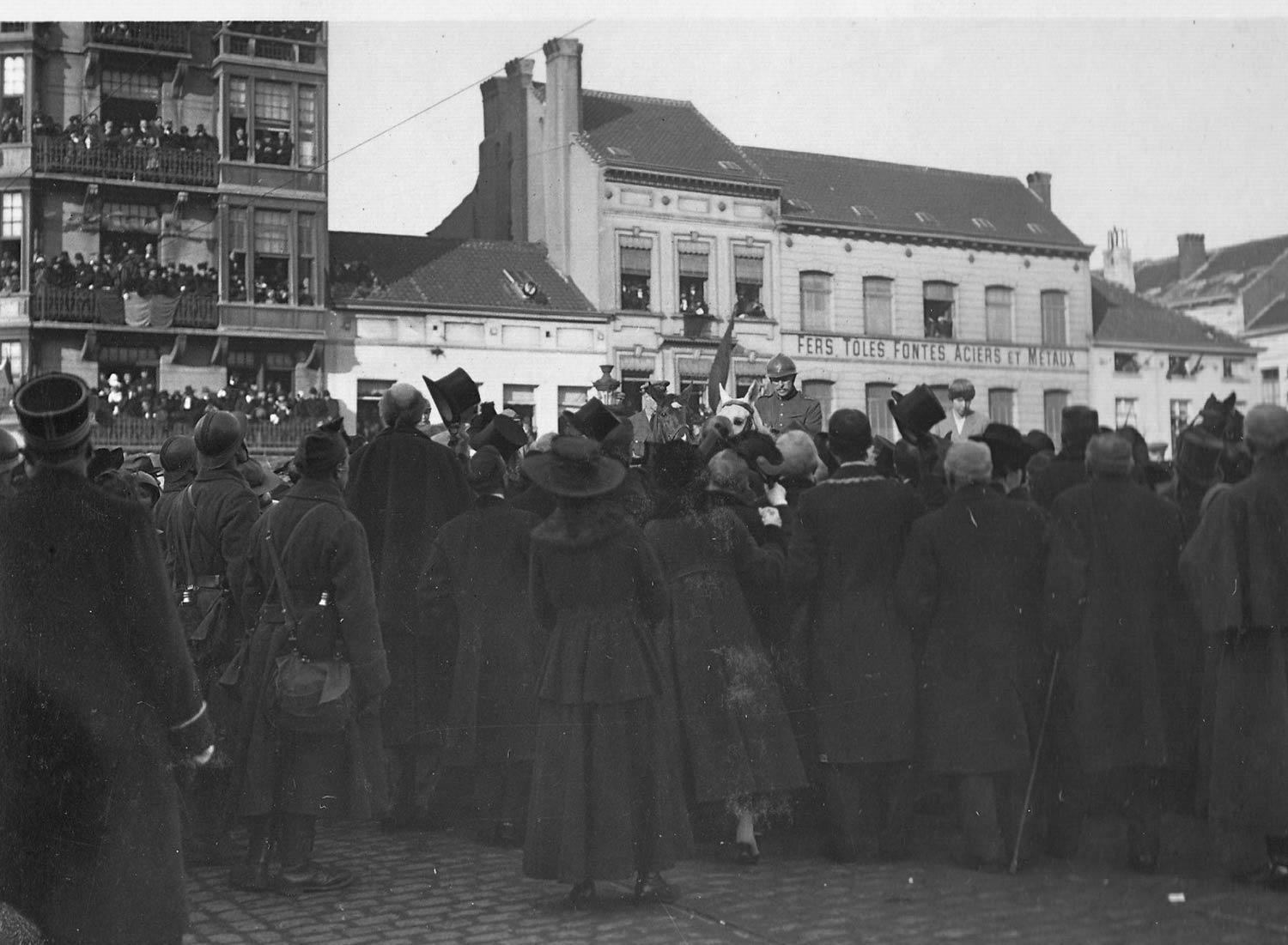 King Albert makes his way through the crowd at Vlaamsepoort on his Joyous Entry